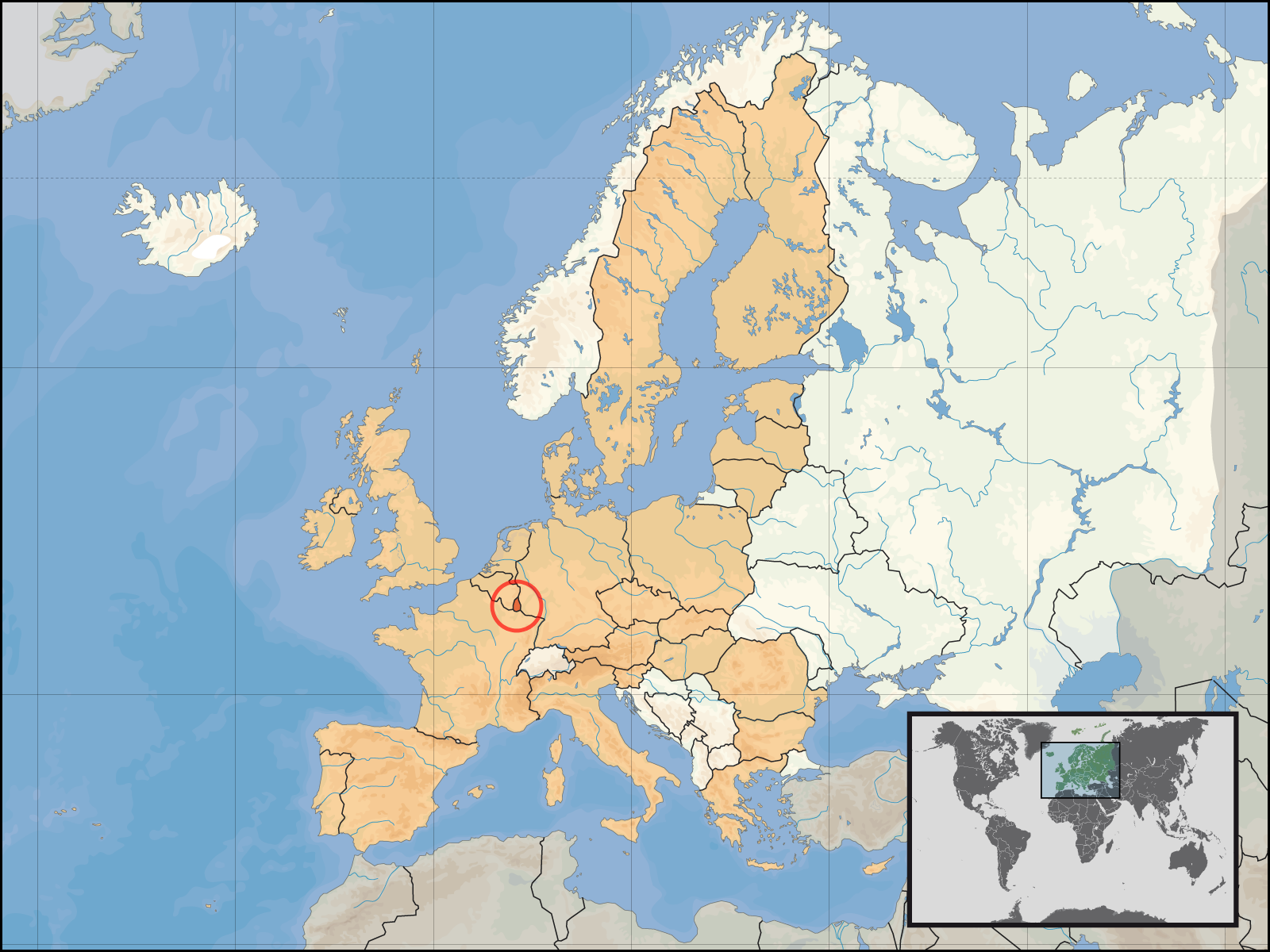 Location of Luxemburg within Europe and the European Union on the 1st of January 2007.